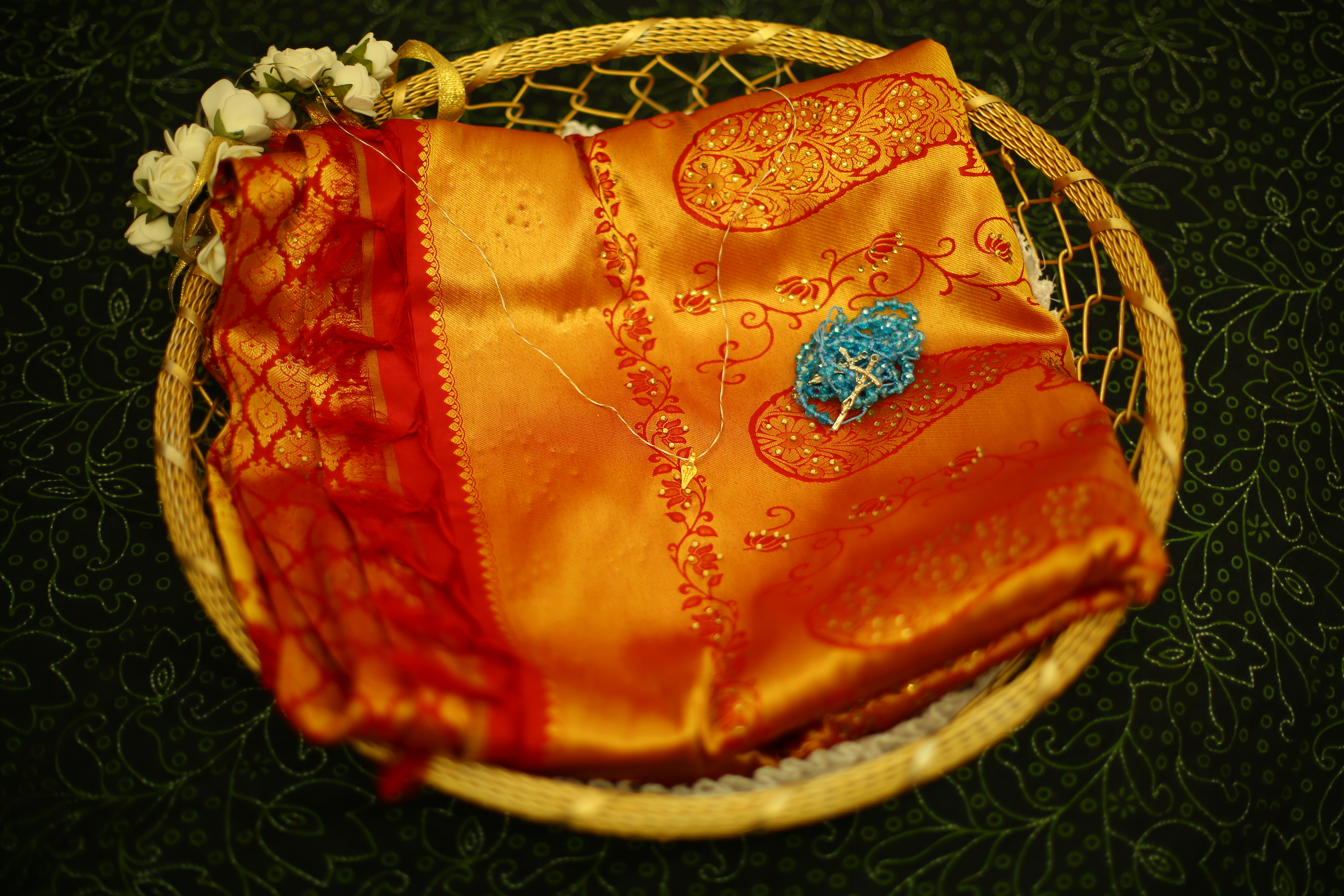 The Manthrakodi (sari which is gold-yellow in this case) on which is seen the rosary (for the wedding ceremony) and the Minnu suspended on the 7 threads(gold-yellow) taken from the Manthrakodi.